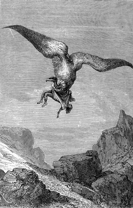 An ilustration from the novel "In Search of the Castaways; or Captain Grant's Children" by Jules Verne drawn by Édouard Riou.